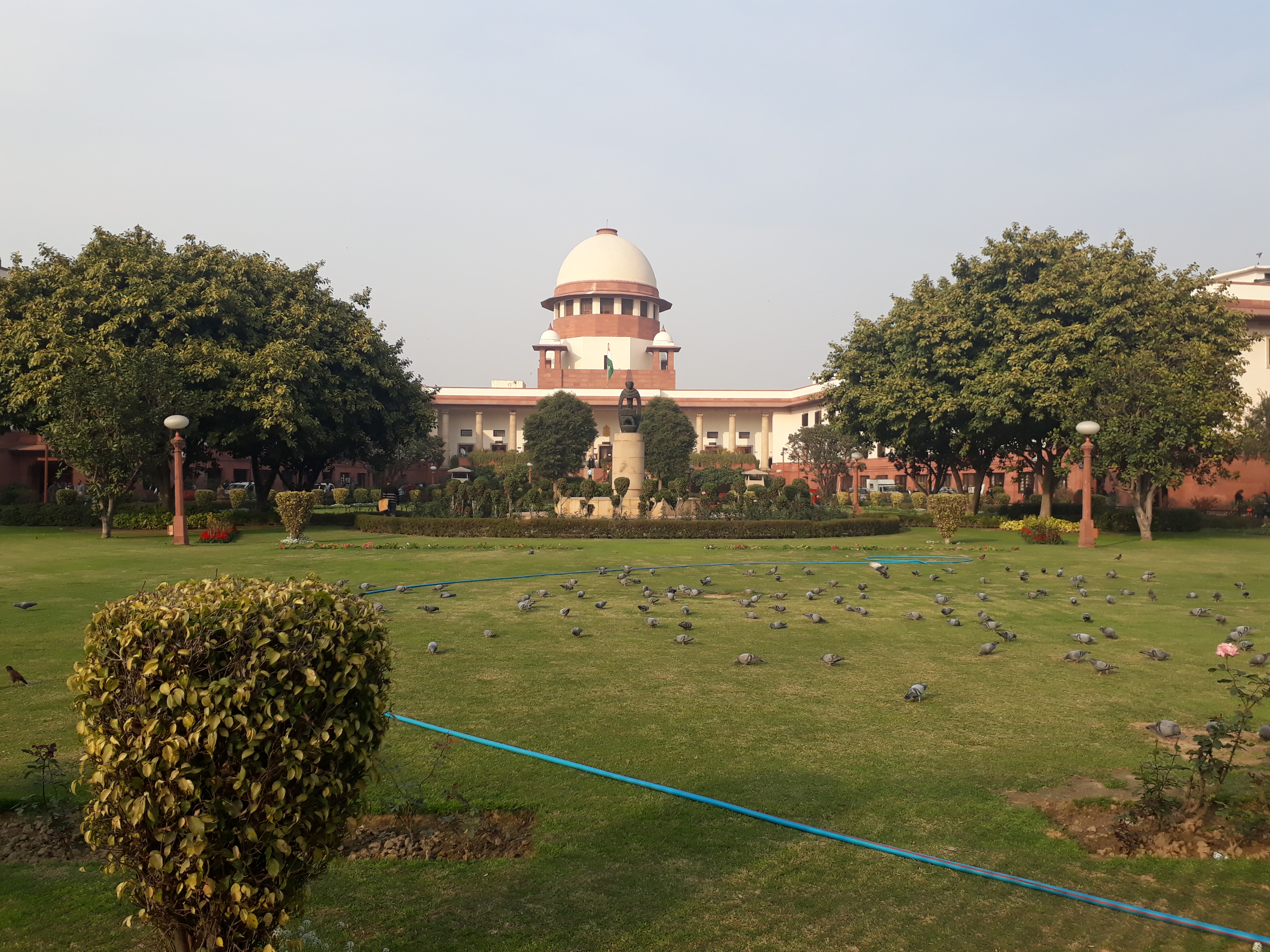 Supreme Court of India, New Delhi